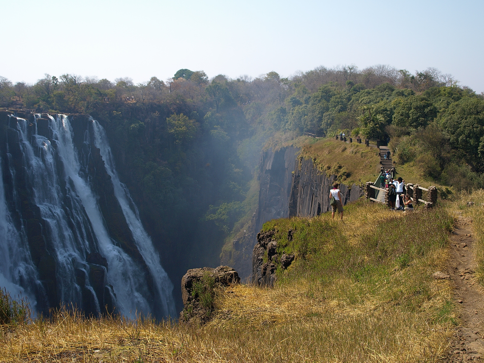 People walking around Zambia side of Victoria Falls.